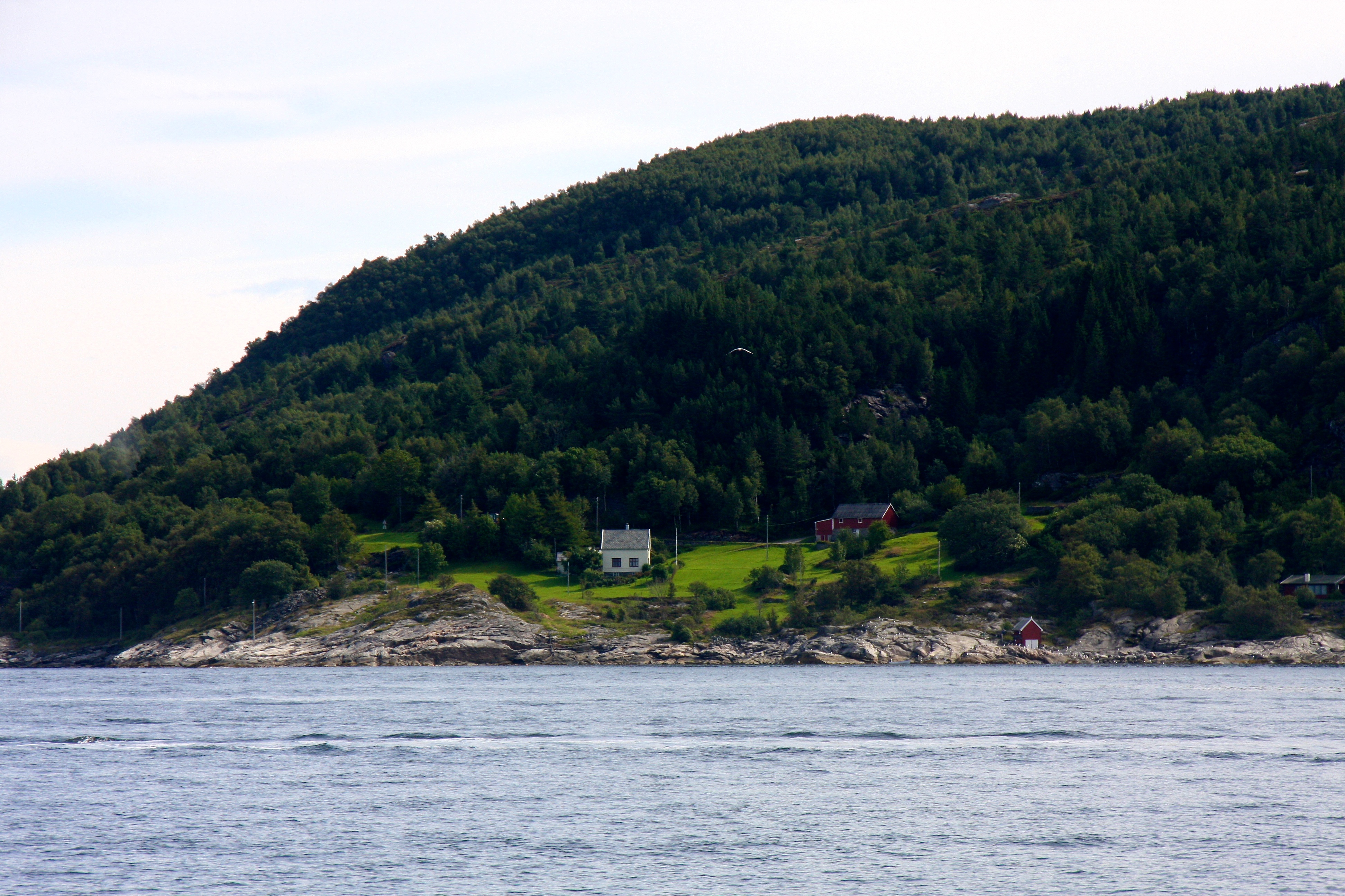 Rise (Gulen) in Gulen municipality, Norway.